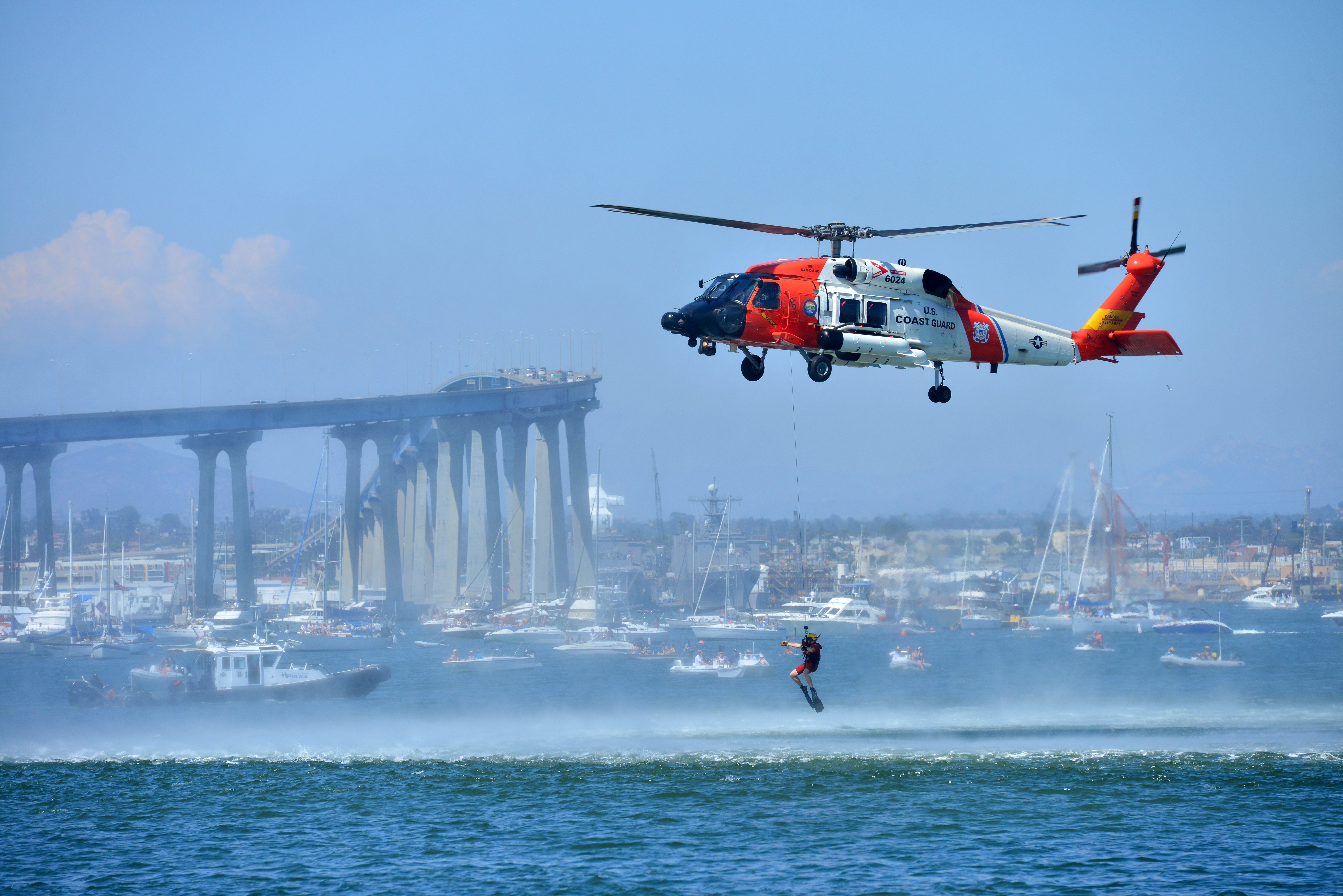 Petty Officer 2nd Class Ryan Pierce, an aviation survival technician at Coast Guard Sector San Diego, guides an MH-60 Jayhawk helicopter crew while hanging from the helicopter during a search and rescue demonstration in Glorietta Bay, in Coronado, Calif., July 4, 2015. During the demonstration, Pierce and the Jayhawk crew simulated various rescue techniques during search and rescue cases. (U.S. Coast Guard photo by Petty Officer 1st Class Rob Simpson)